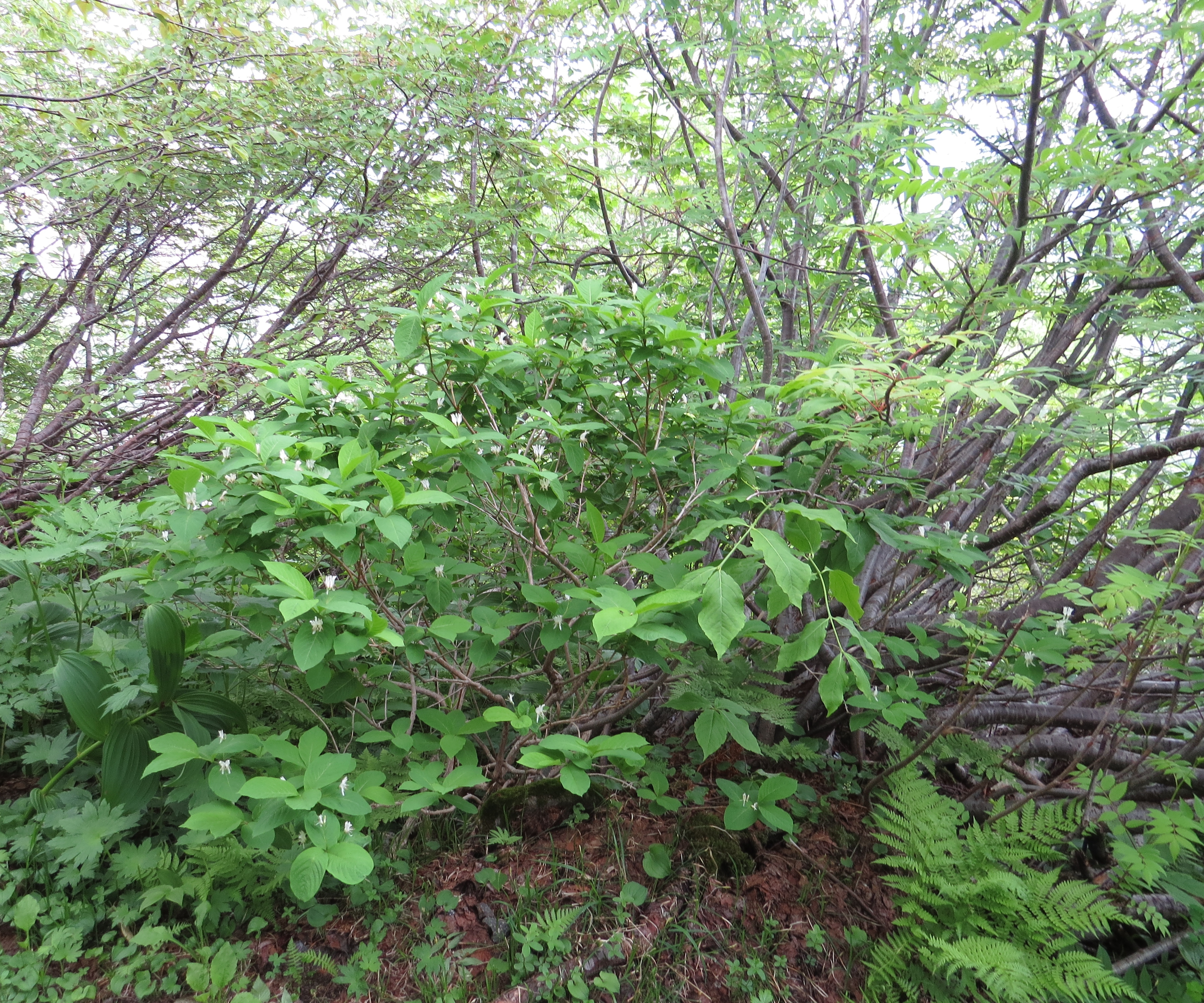 Lonicera tschonoskii with white flower in Mount Haku, Gifu prefecture, Japan.